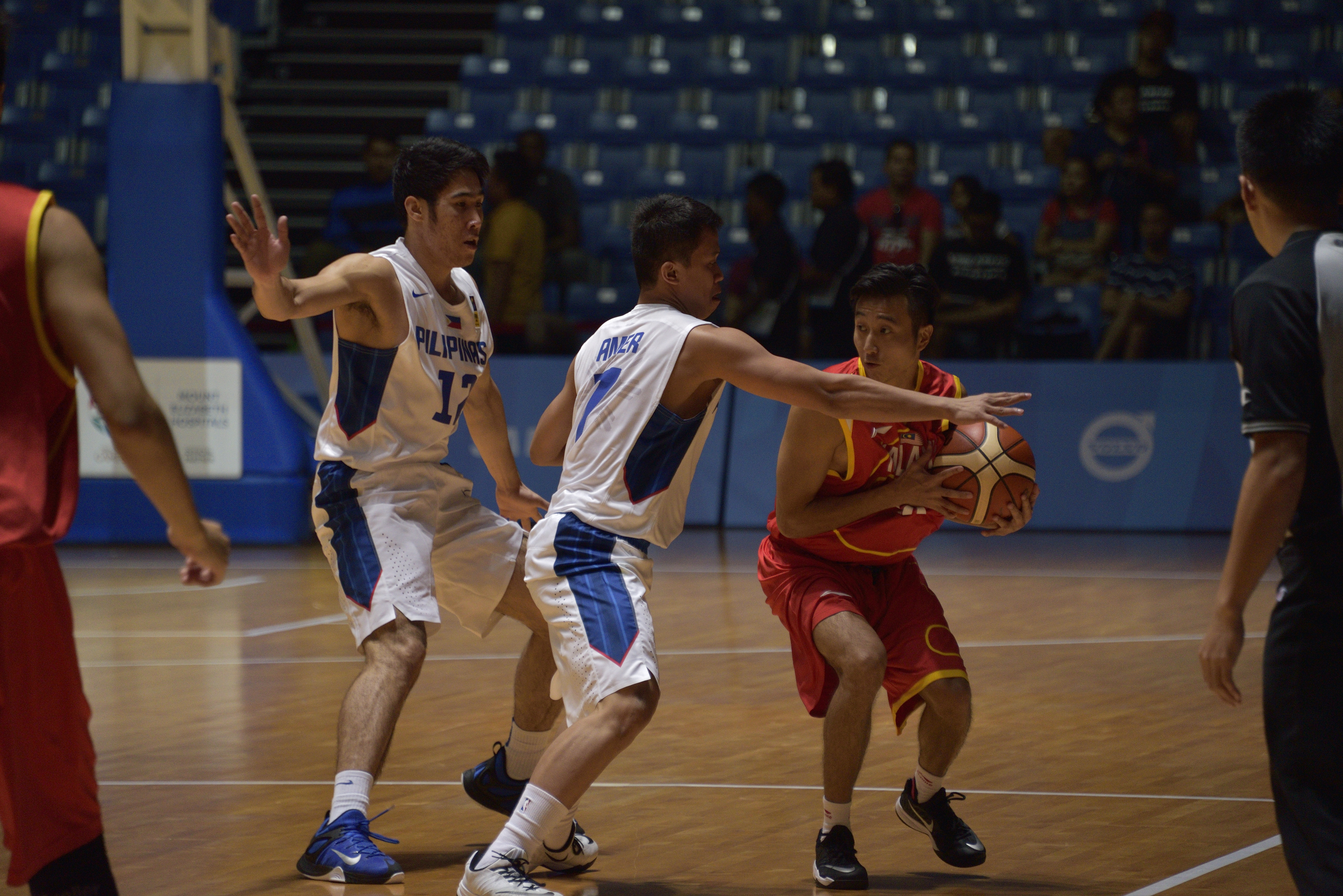 The Philippine and Malaysian national basketball team in a match at the 2015 Southeast Asian Games men's basketball tournament.